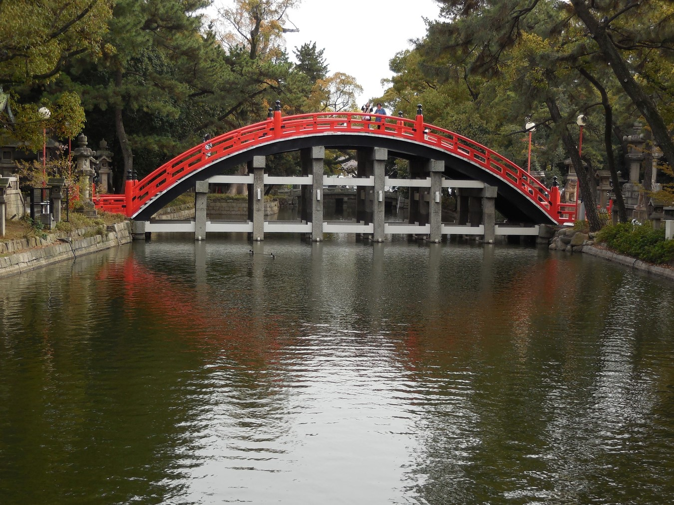 Sumiyoshi Taisha Soribashi